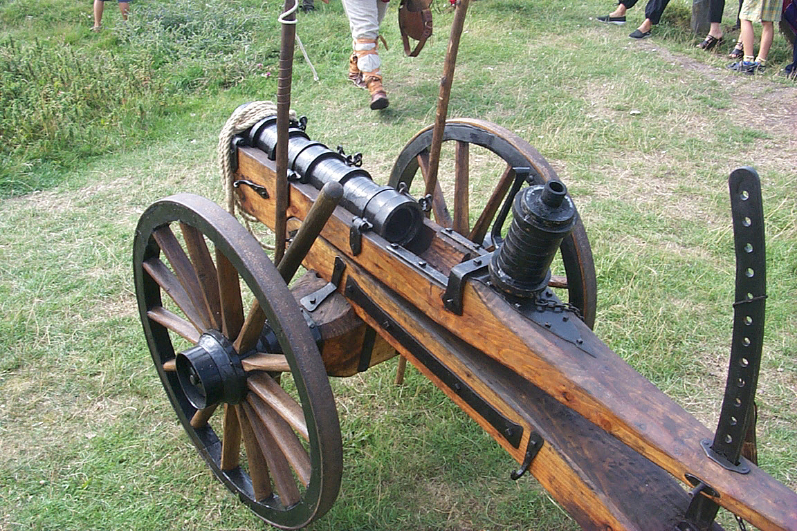 Reconstracted medieval cannon.